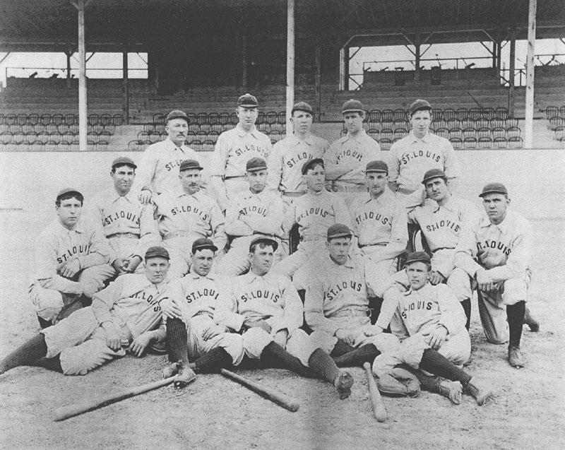 1899 St. Louis Perfectos